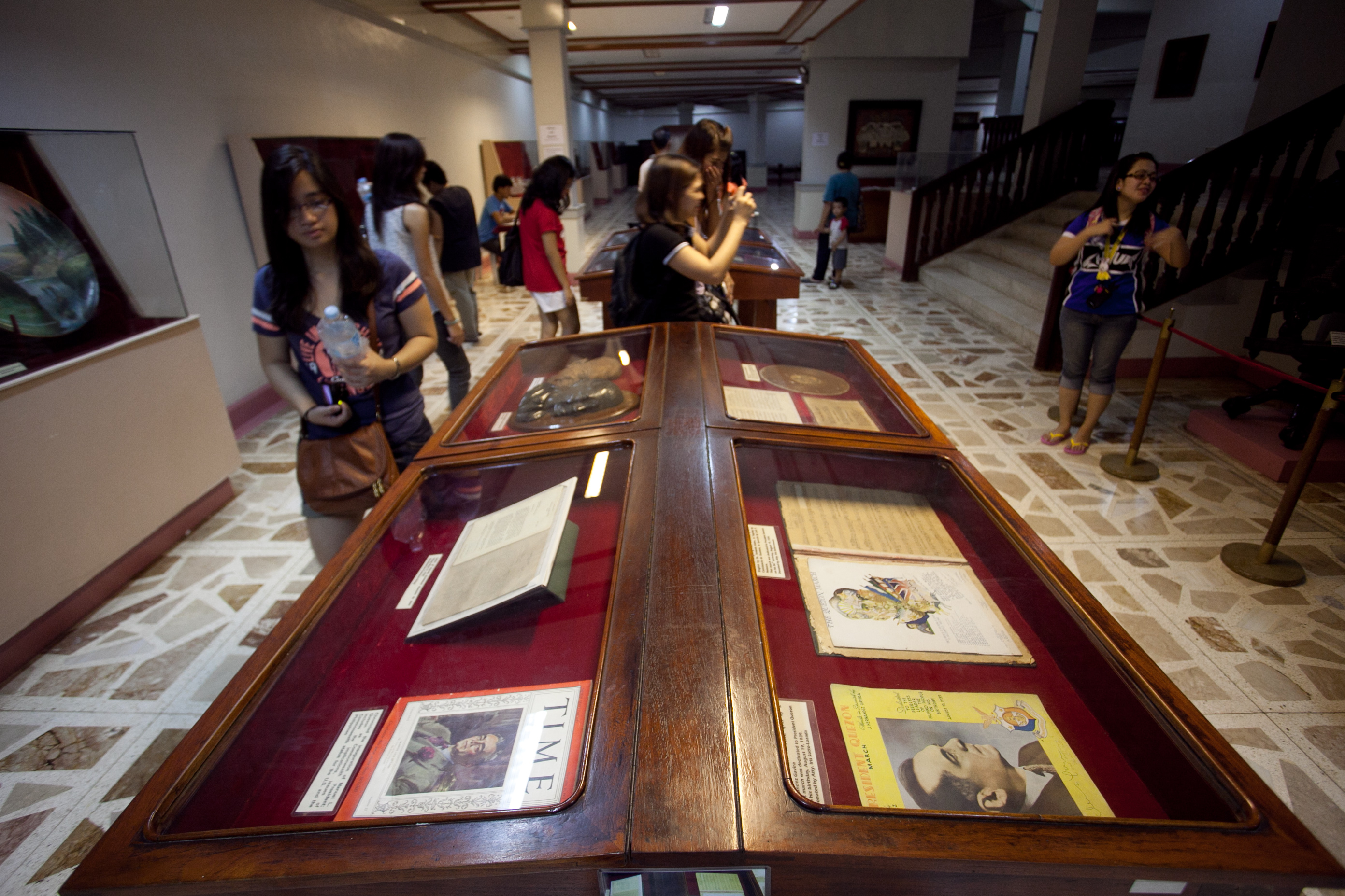 A glimpse inside Quezon Monument Museum